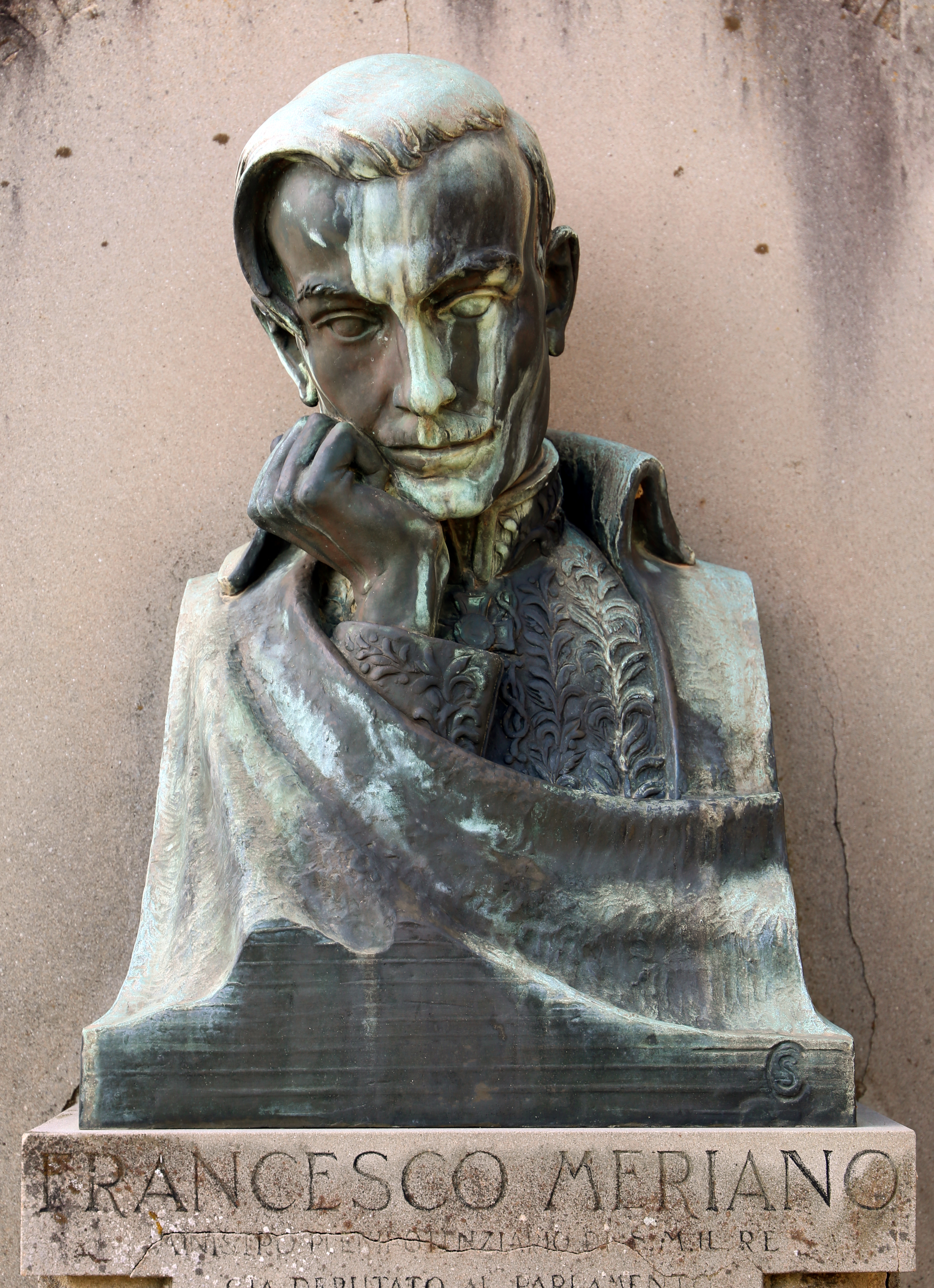 Settignano cemetery